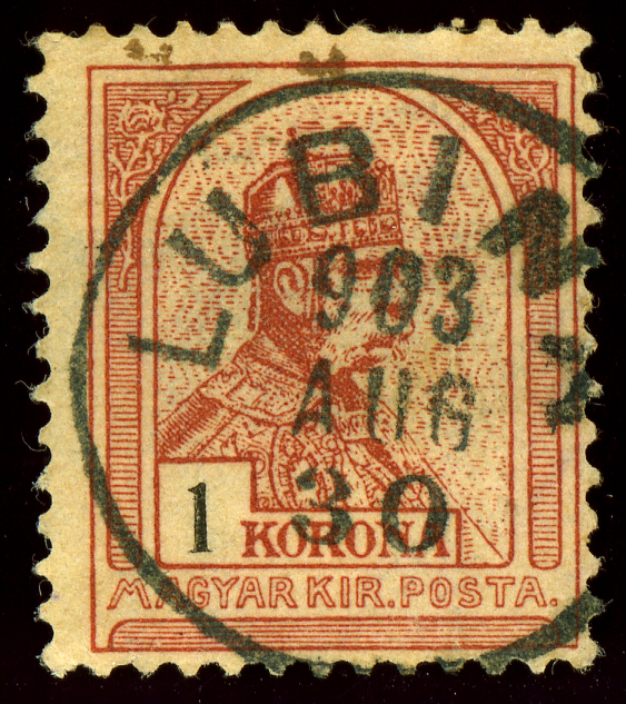 Lubina - Hungarian cancellation in 1903 on 1 korona